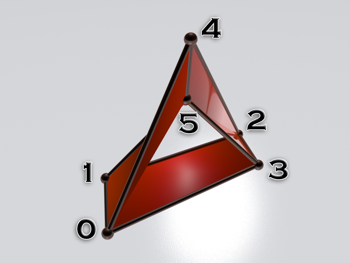 Полиедарски приказ мебијусове траке